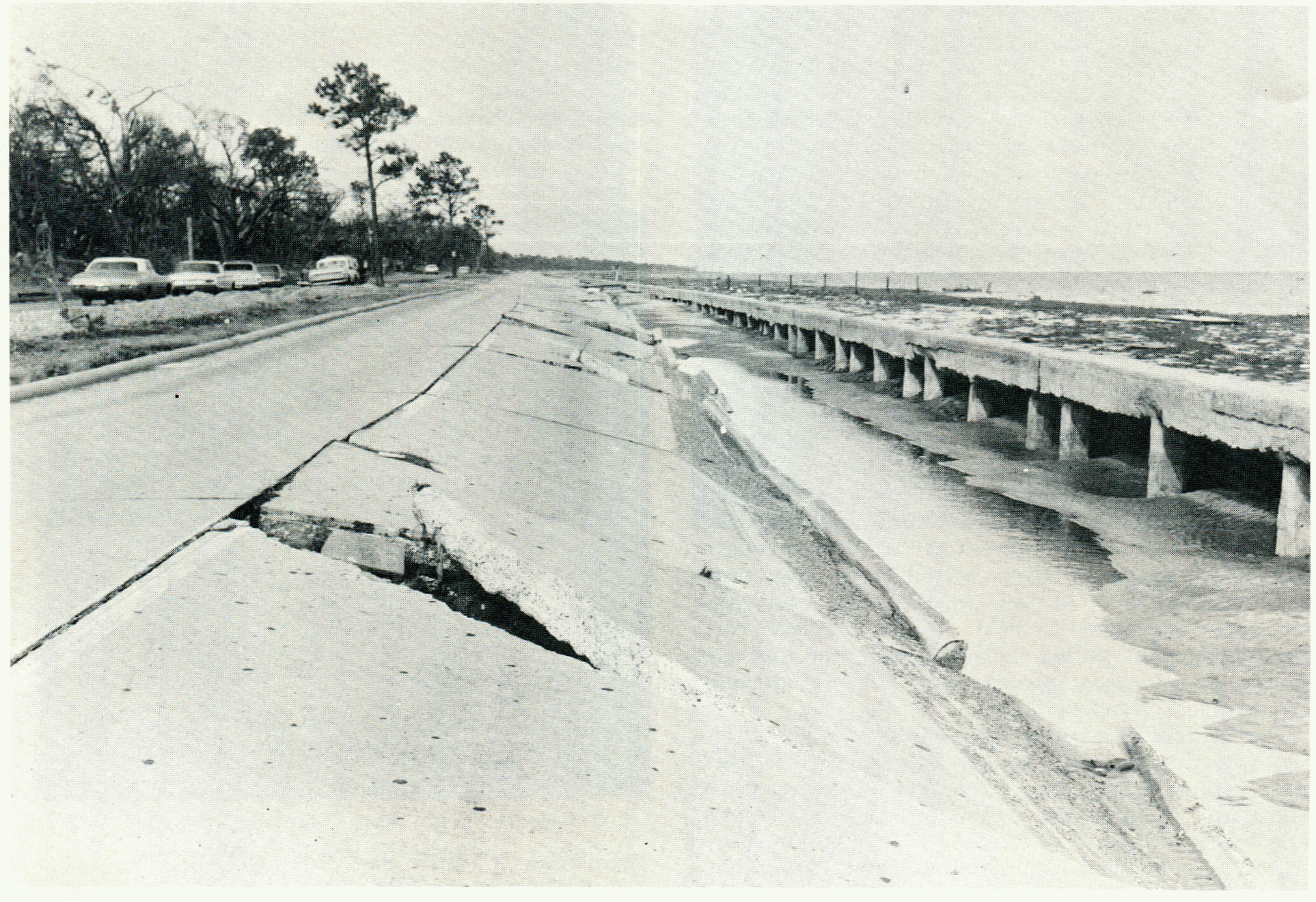 The eastbound lanes of United States Highway 90 suffered broken pavement during Hurricane Camille, which halted traffic